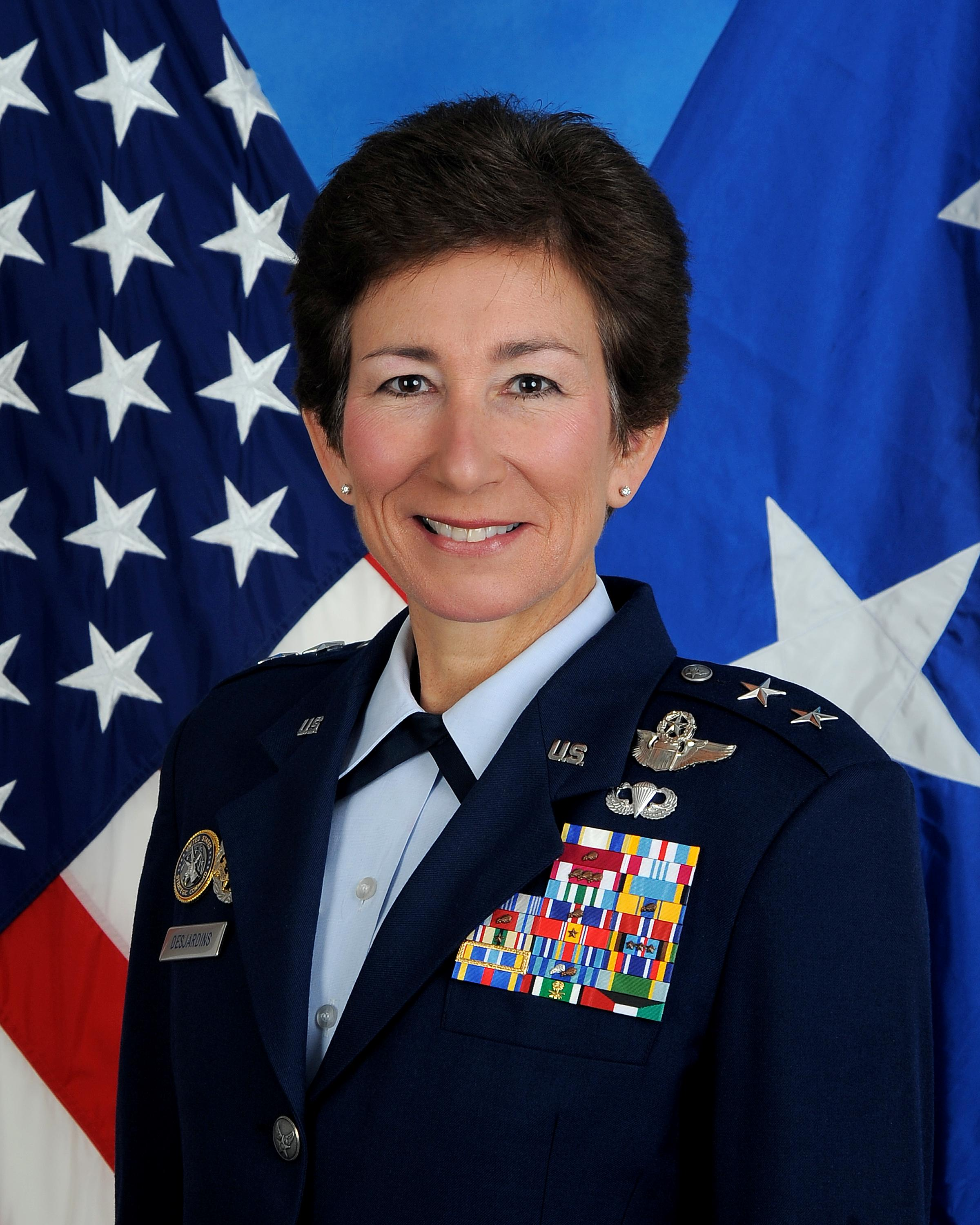 Major General Susan Y. Desjardins, USAF